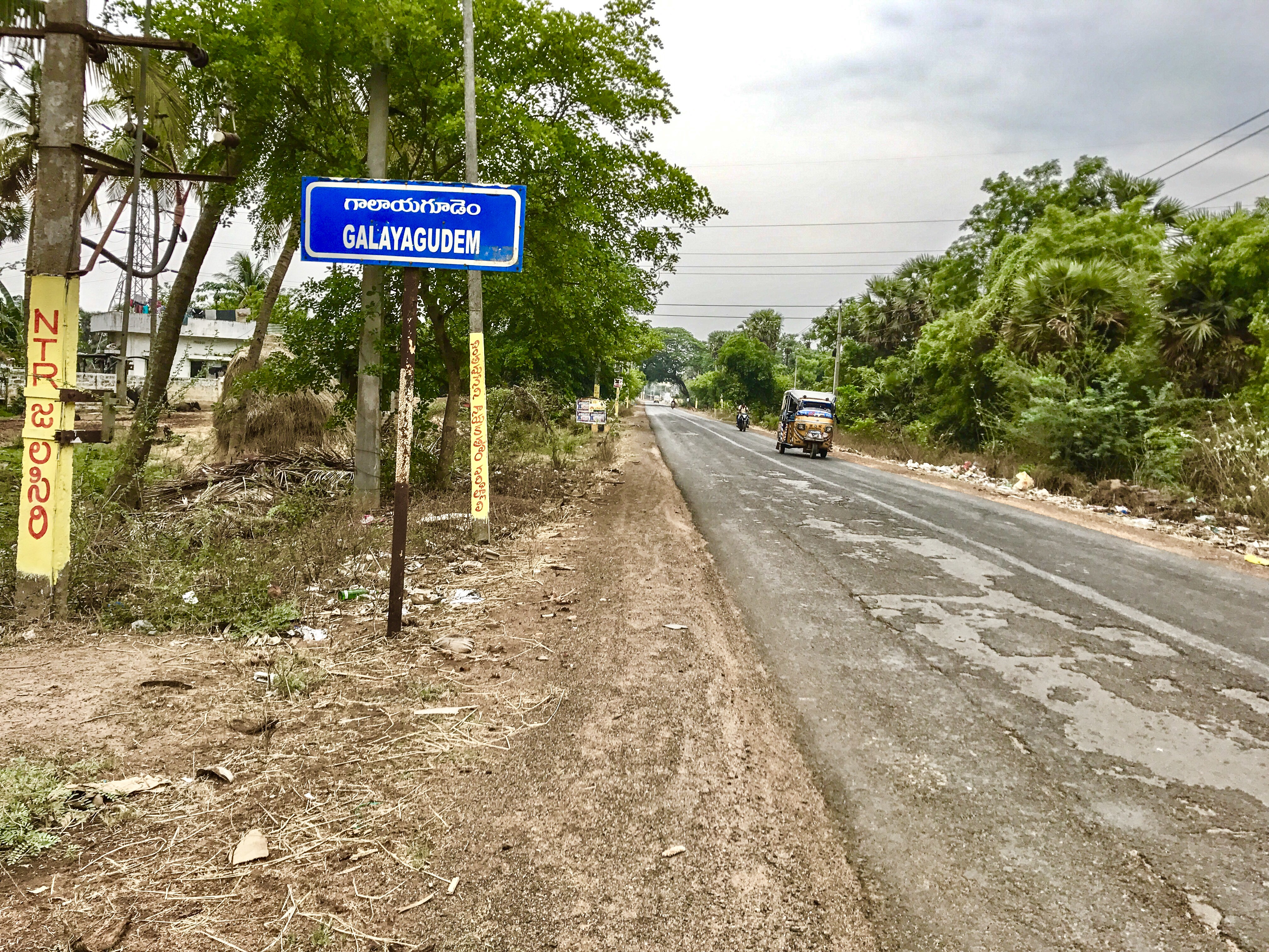 Board of Galayagudem village